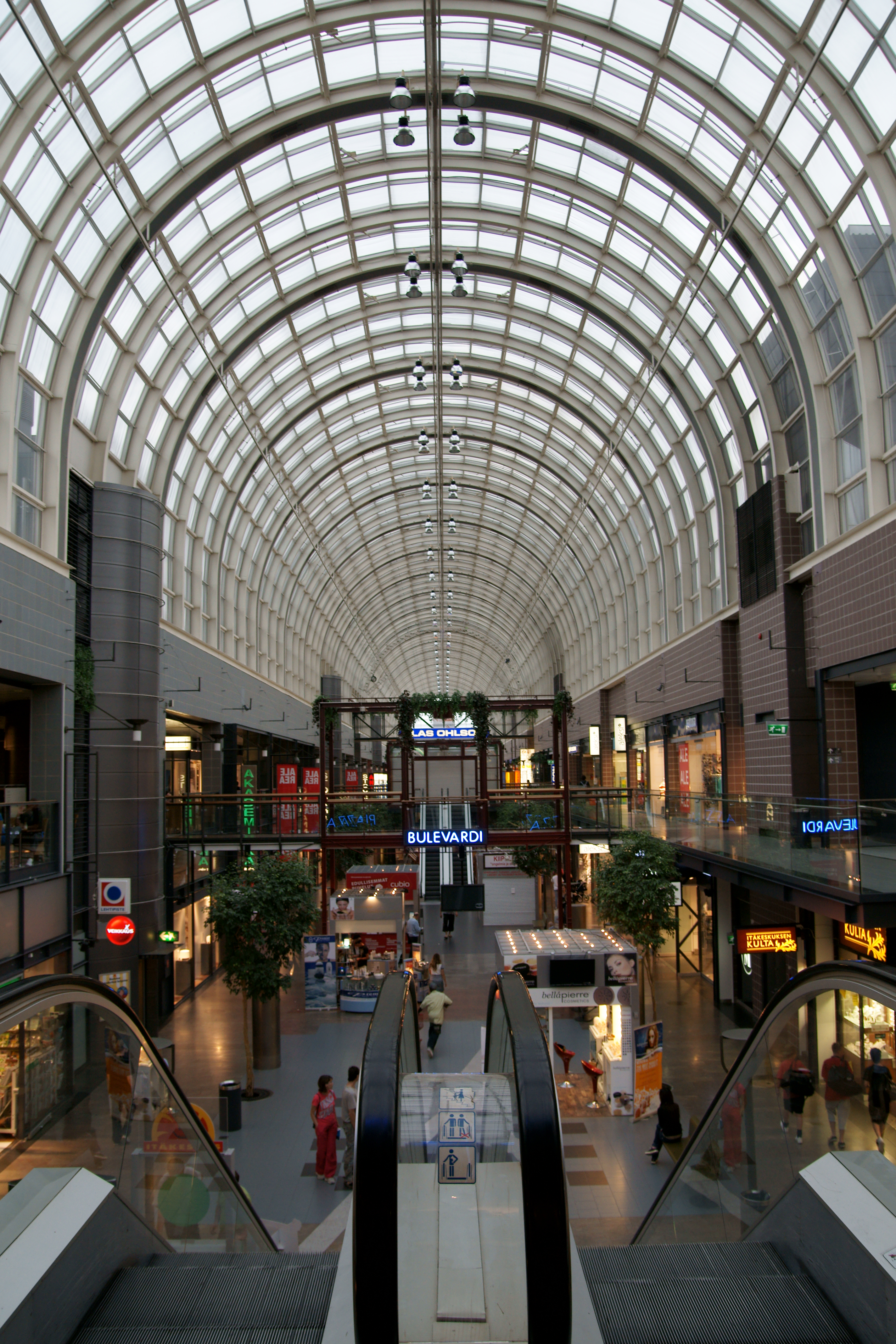 Photo from Itäkeskus shopping centre in Helsinki, Finland.